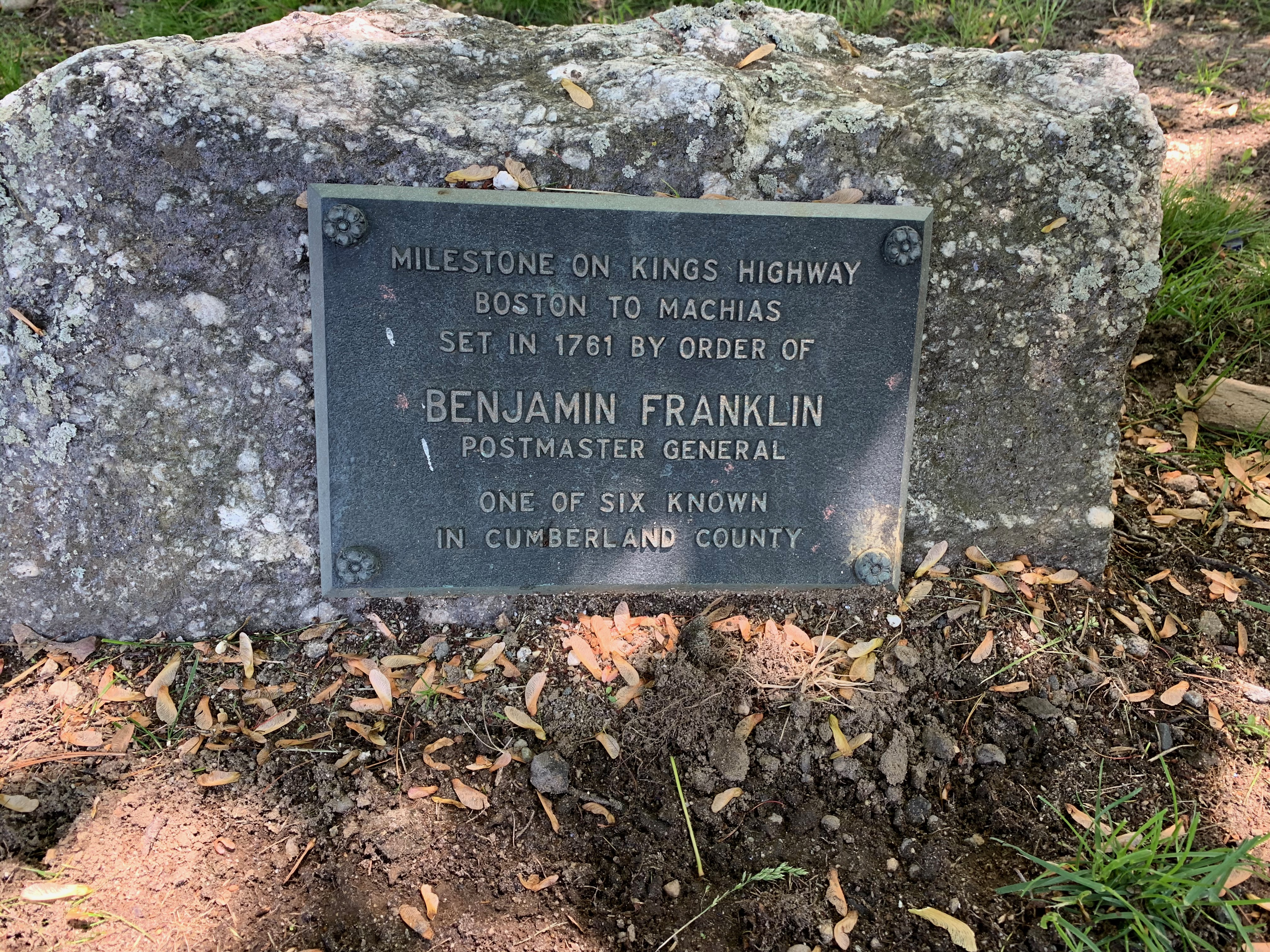 Milestone on the Boston to Machias route. This one is located on Kings Highway in Cumberland, Maine